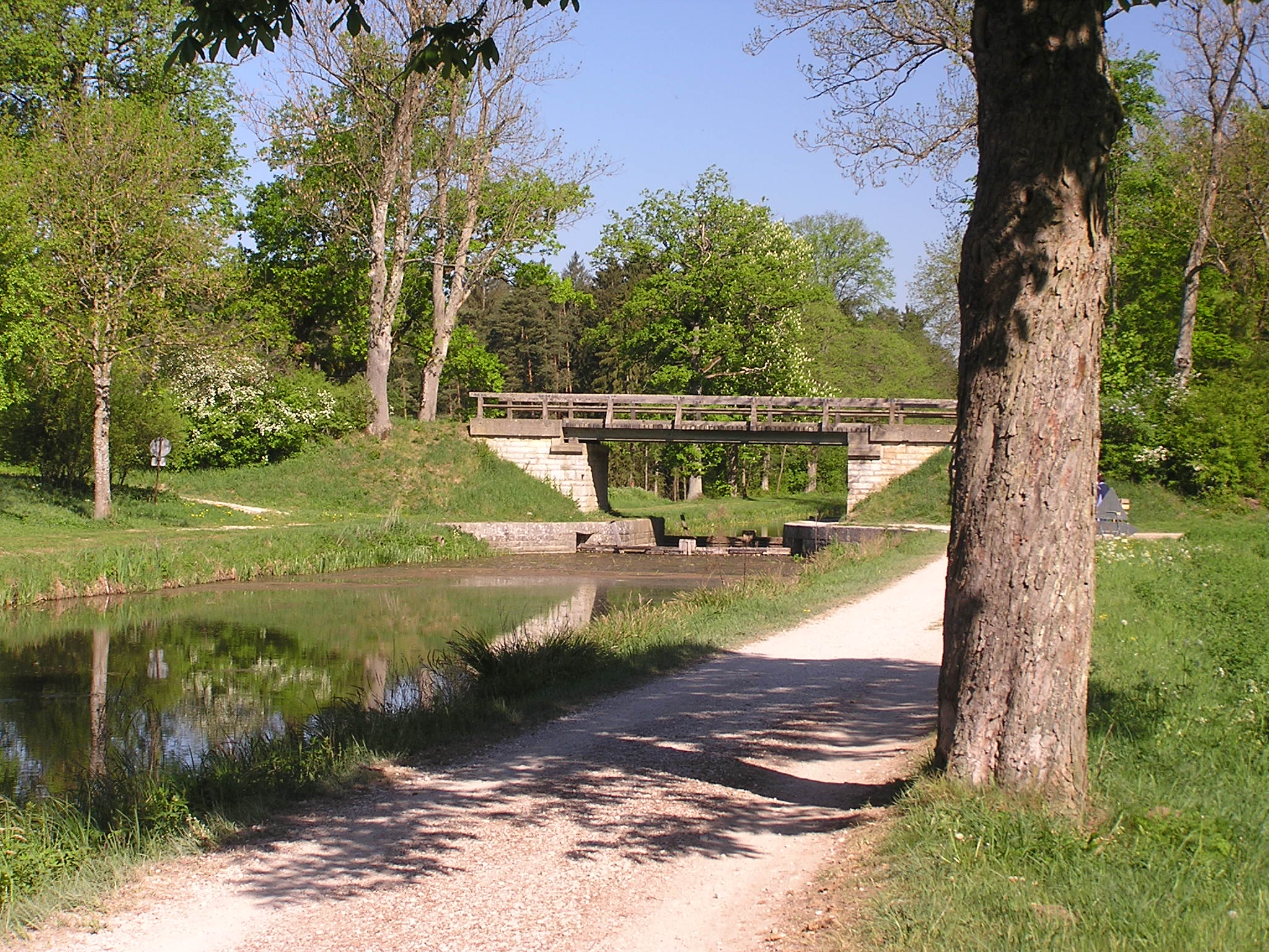 Bridge on the Ludwig-Donau-Main-Kanal with security door, near the town of Neumarkt in der Oberpfalz.